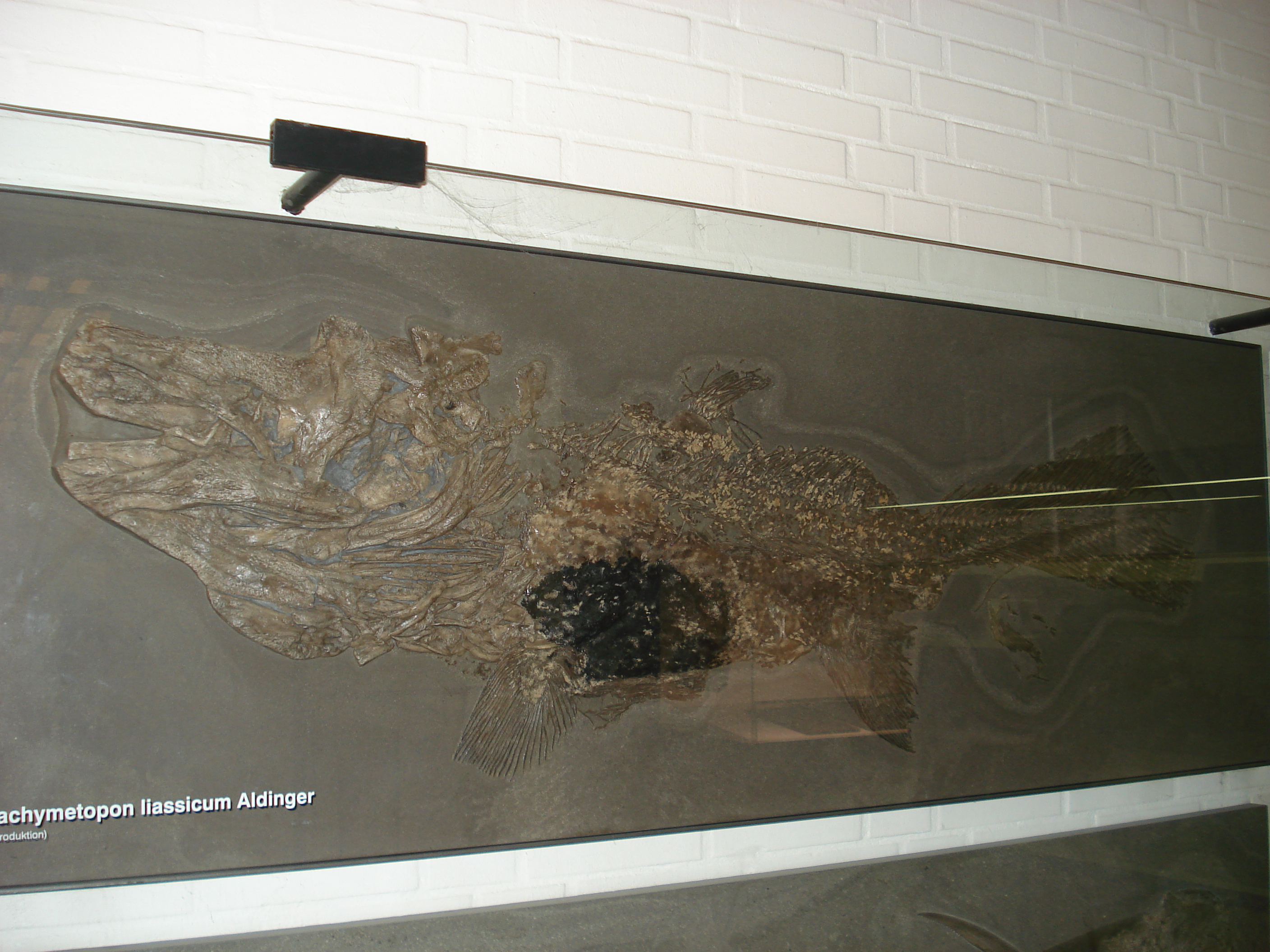 fossil of trachymetopon